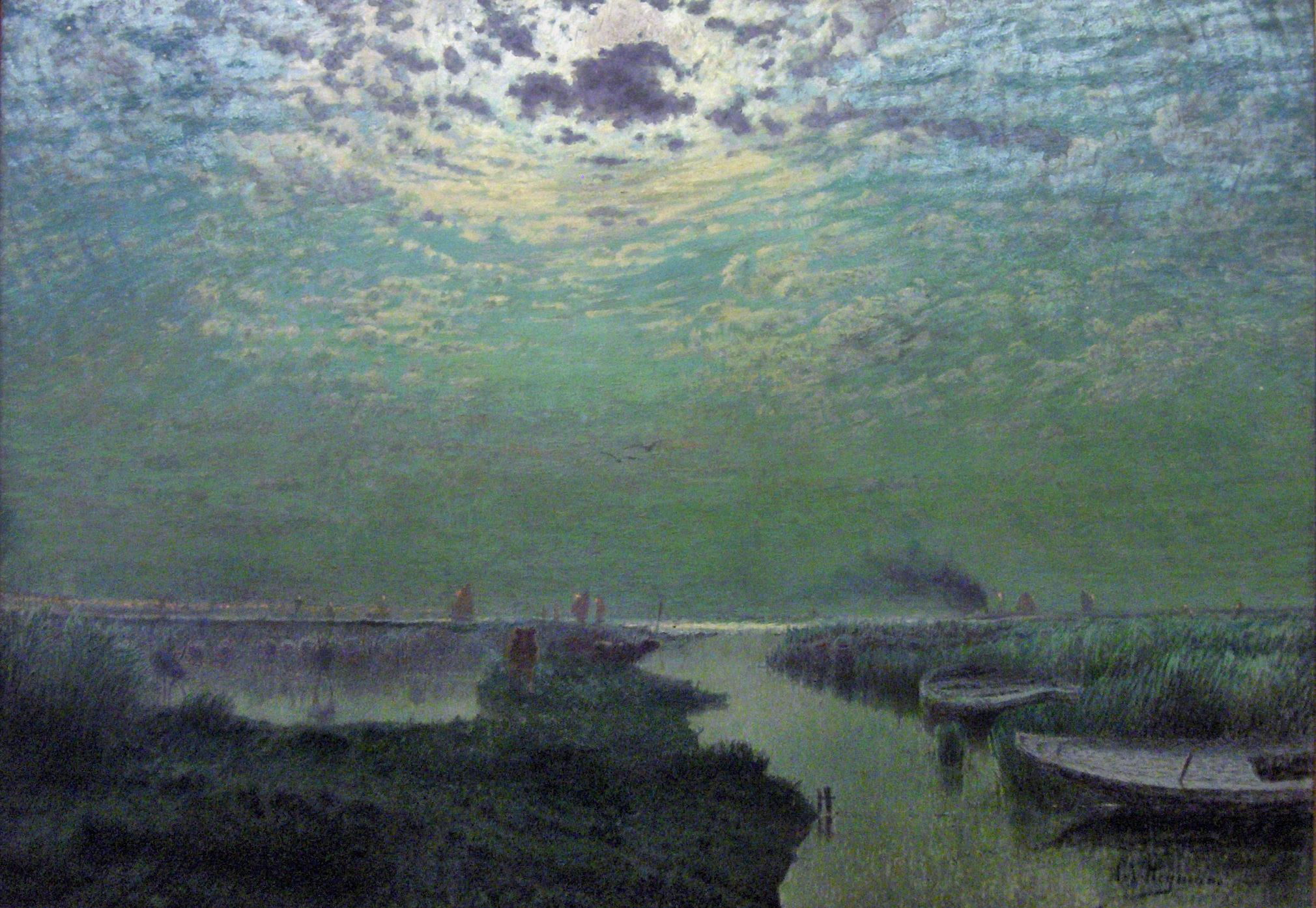 "Sky with moonlight" (1907) Royal Museum of Fine Arts, Brussels